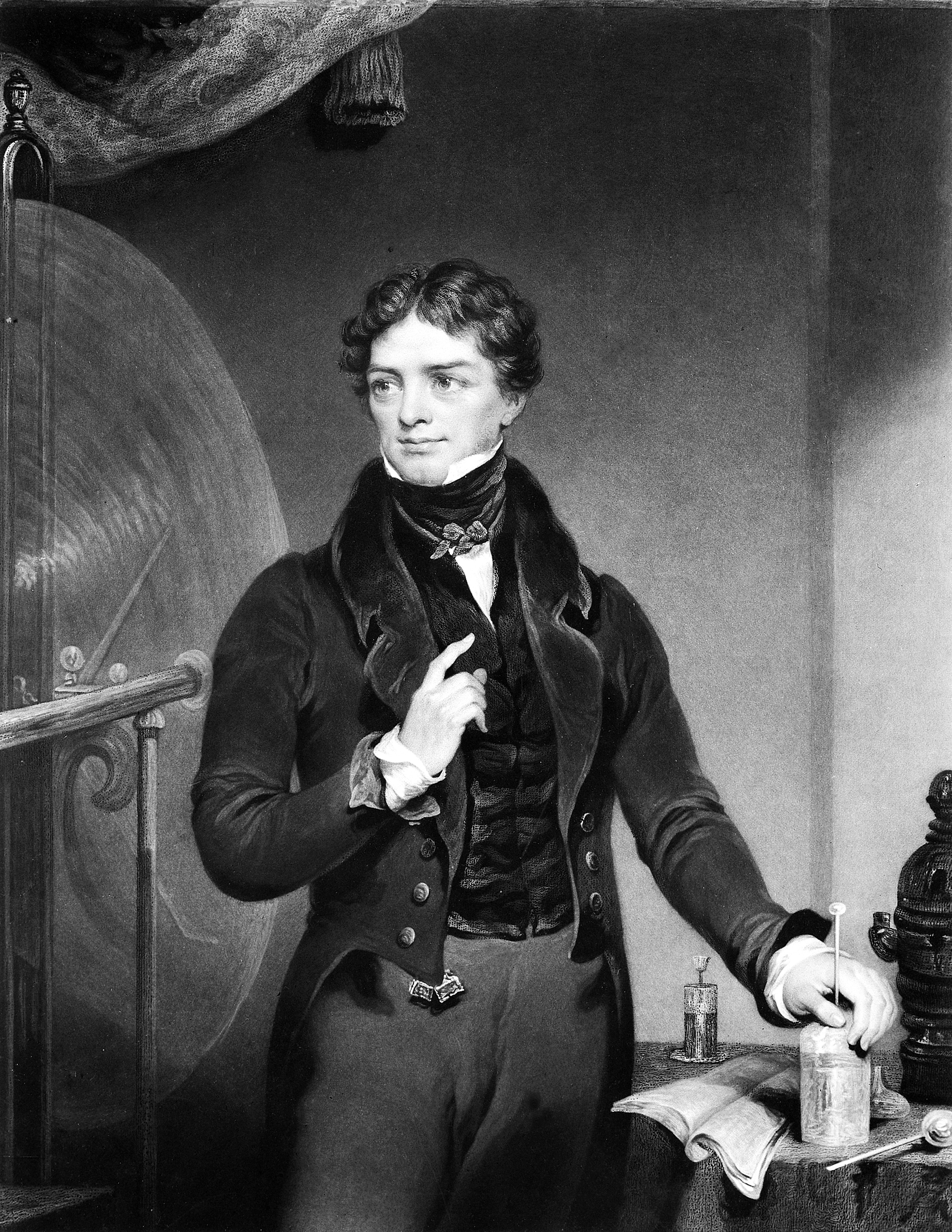 Portrait of Michael Faraday (1791-1867) Iconographic Collections Keywords: Michael Faraday; Charles Turner